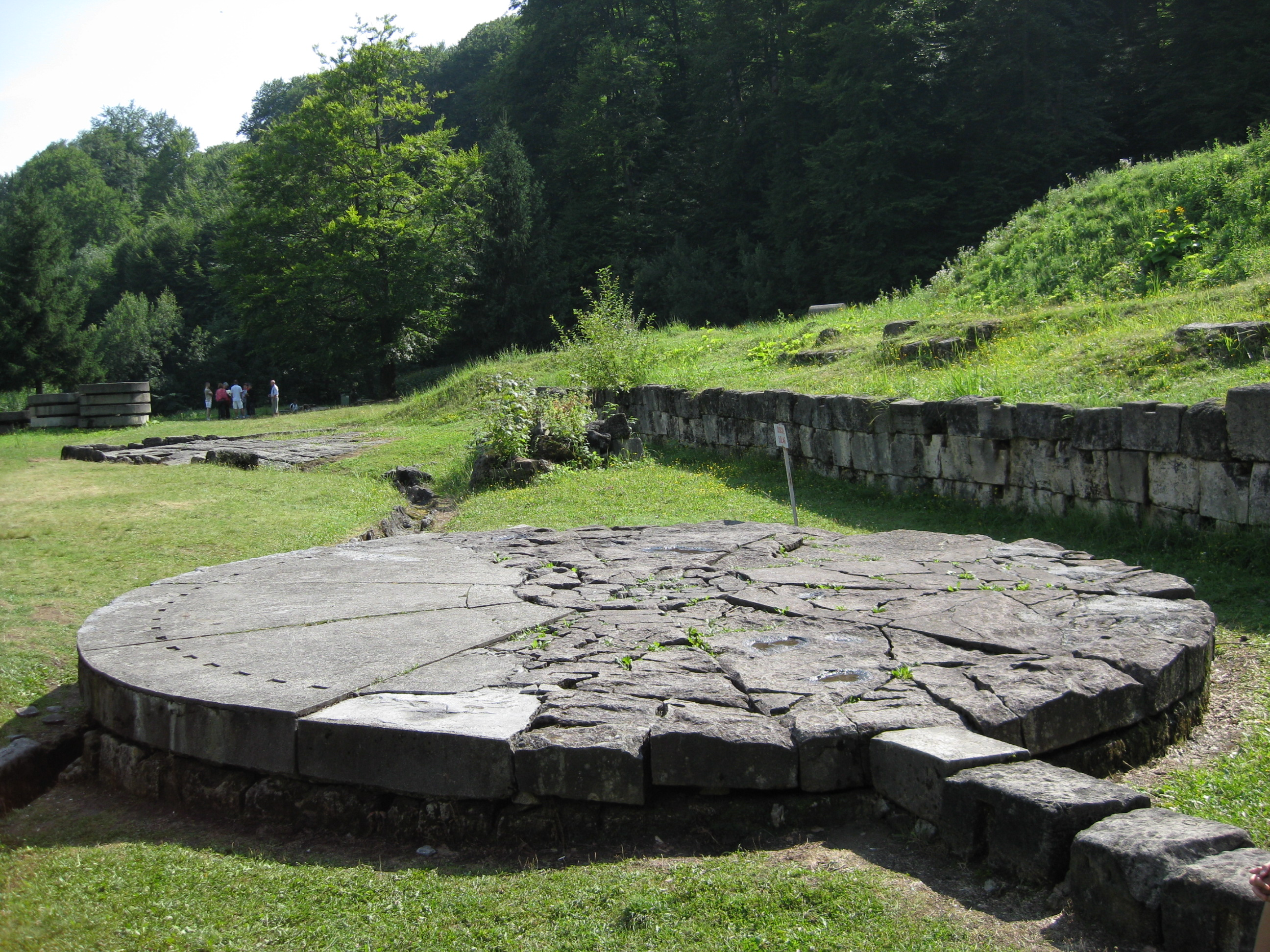 Solar disc (astronomical calendar) at Sarmizegetusa Regia, Romania